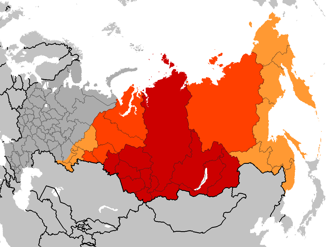 Map of Russian federal subjects belonging to Siberia. Siberian Federal District, Geographic Russian Siberia, Asian part of Russia.